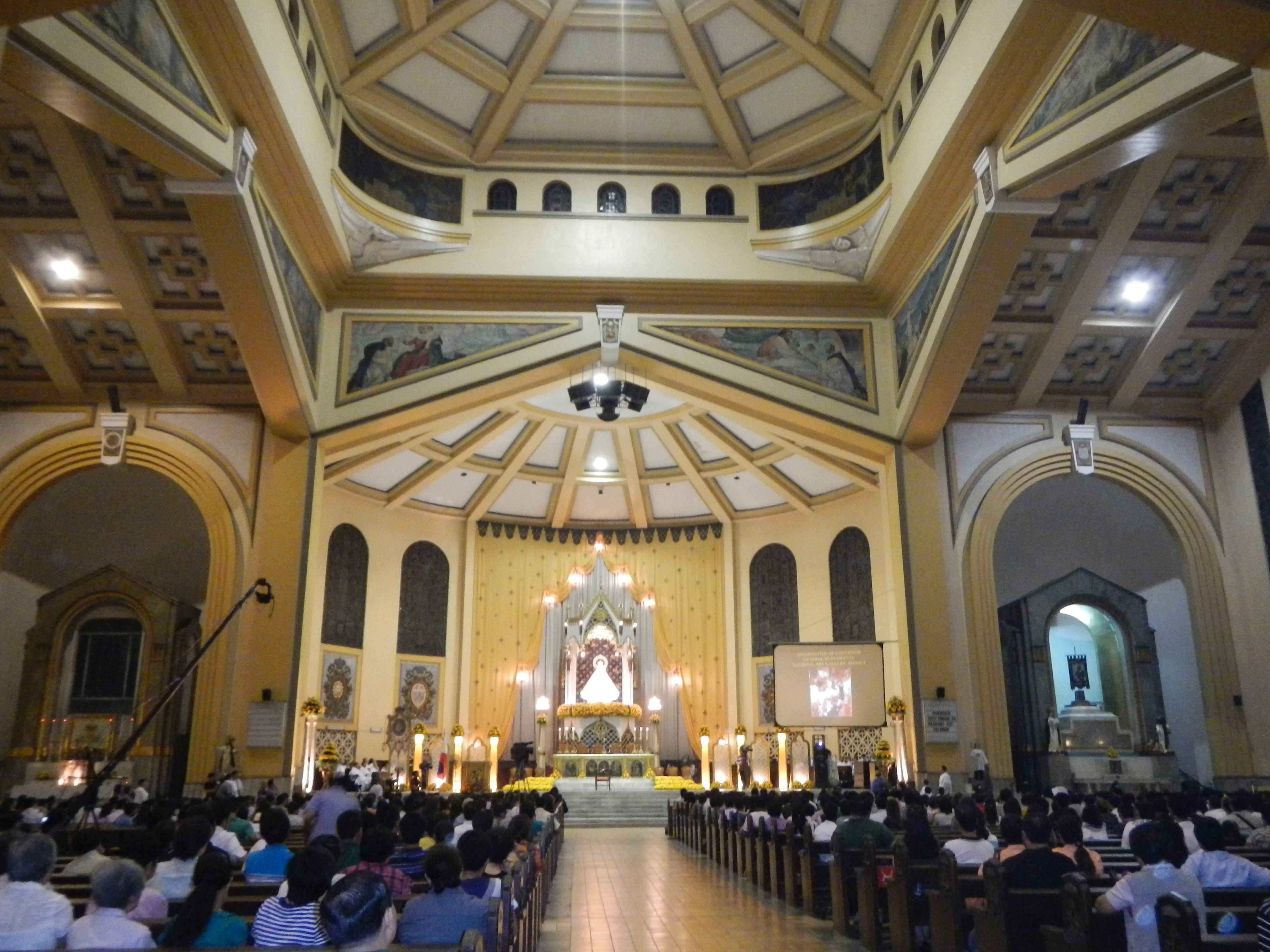 Our Lady of the Most Holy Rosary of La Naval de Manila[1][2]